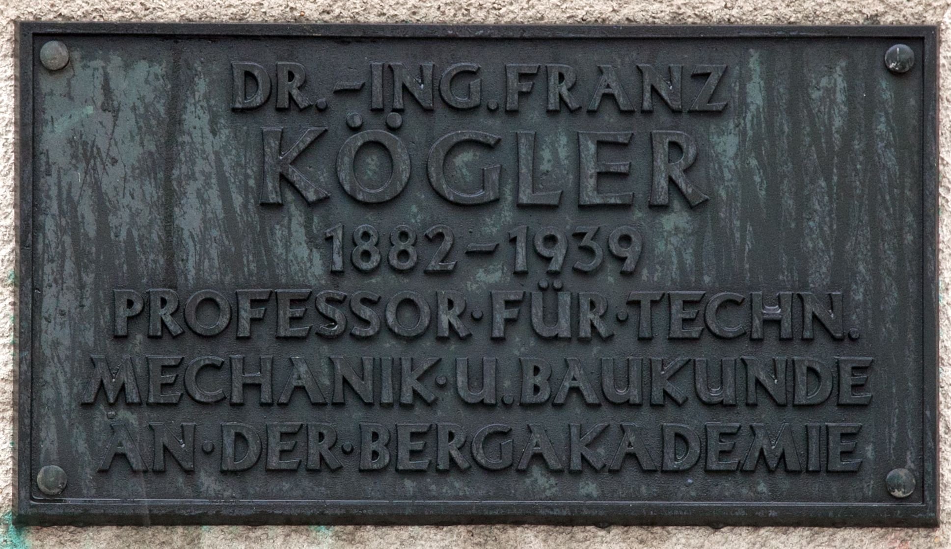 Franz Kögler, plaque at his house in Freiberg, Saxony